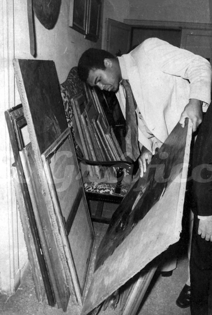 Muhammad Ali during a visit to an art gallery in Argentina.